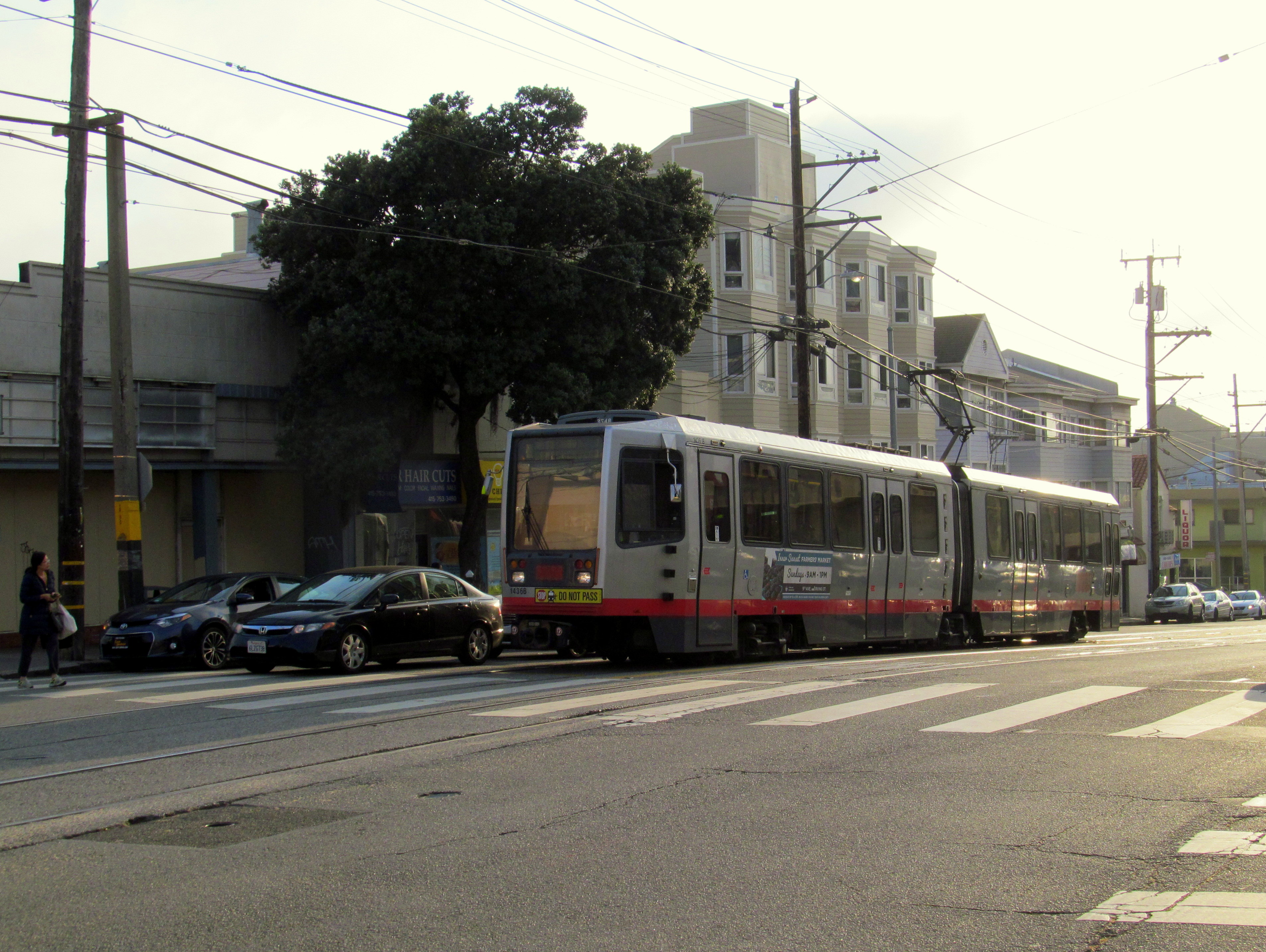 Inbound train at Taraval and 17th Avenue stop in September 2017